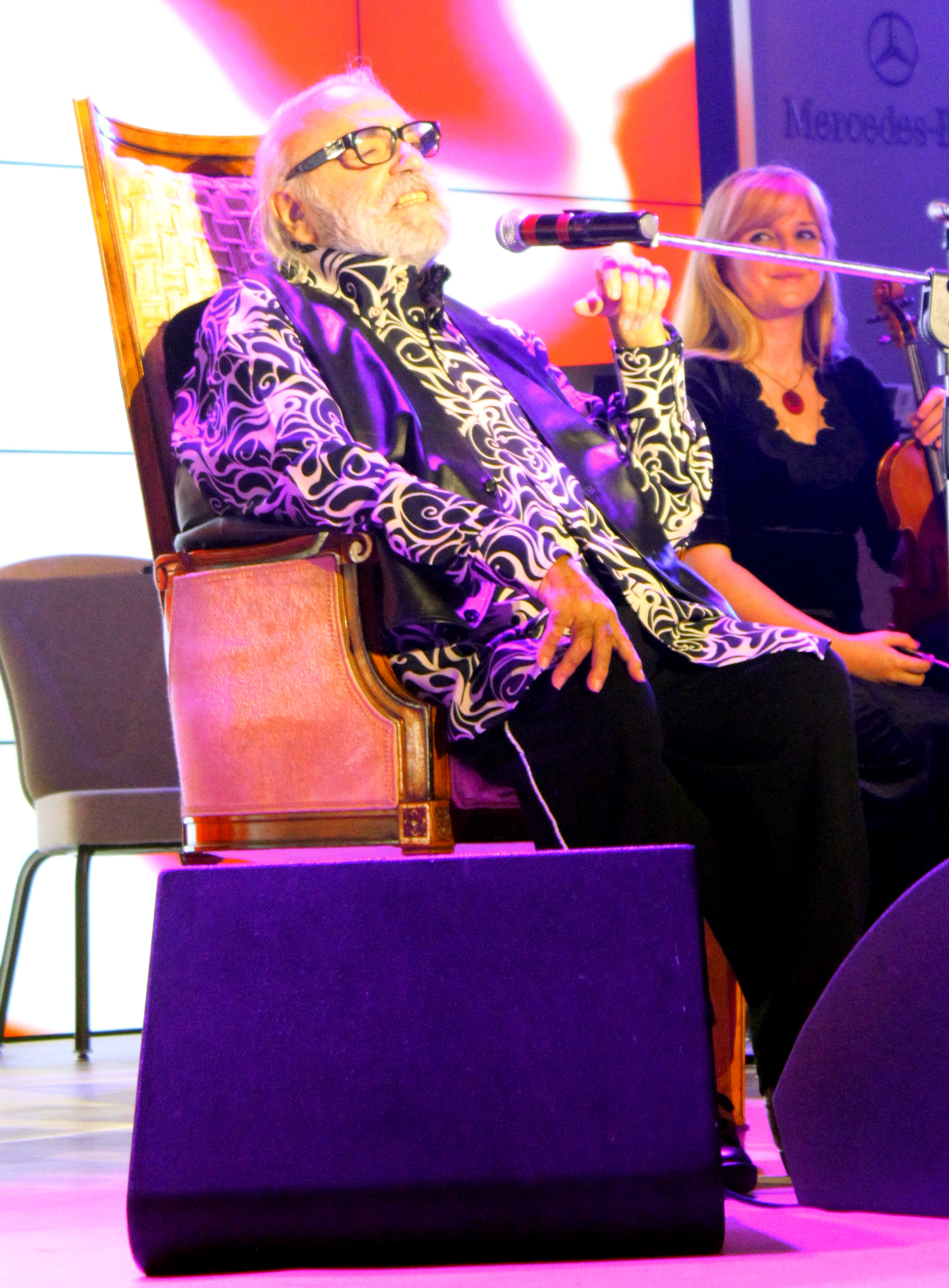 Demis Roussos in Baku